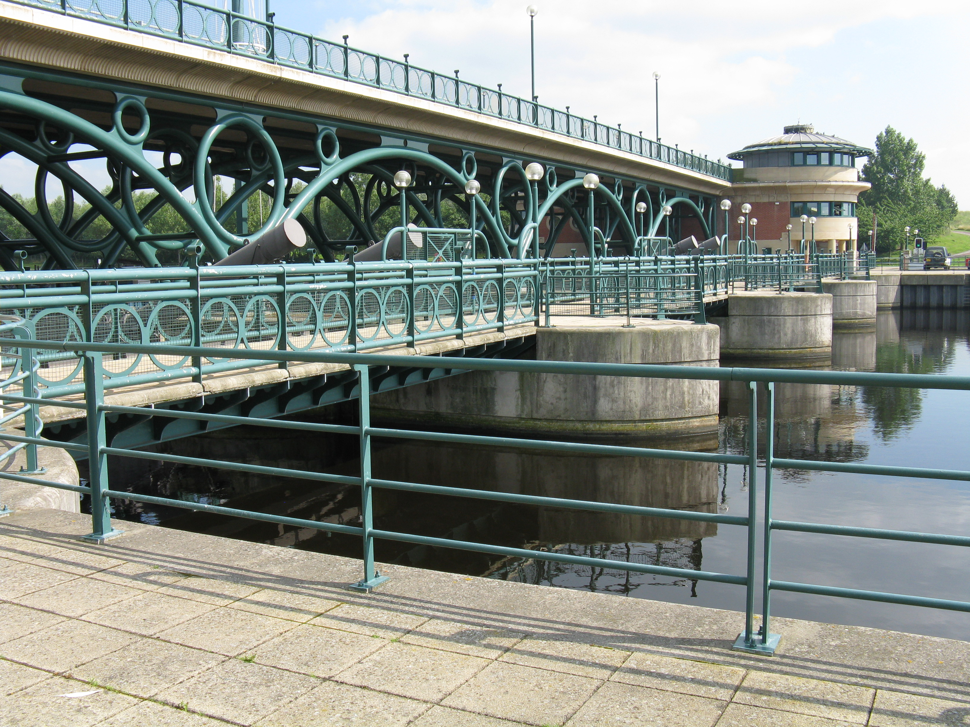 This is a photograph of the barrage over the river Tees between Stockton-on-Tees and Middlesbrough taken from the northern bank on the upstream side